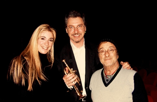 Francoise de Clossey, Mauro Maur and Lucio Dalla